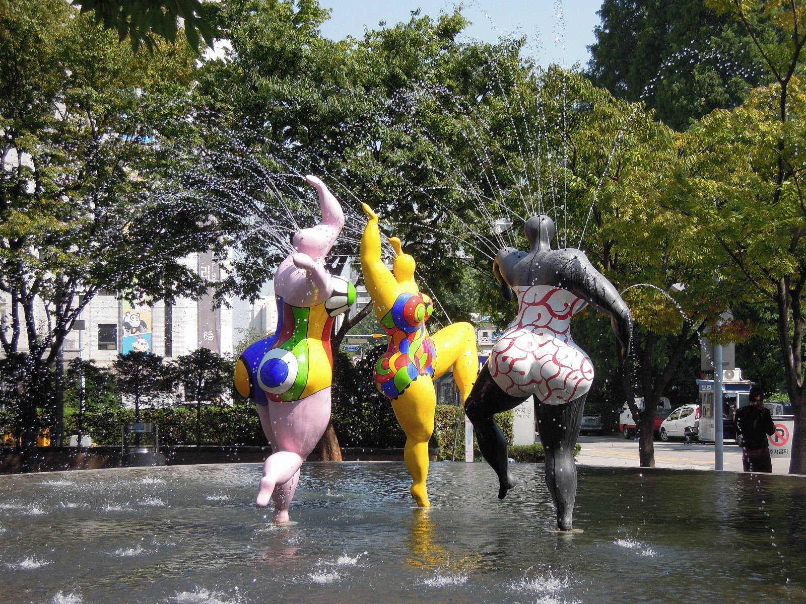 Gwacheon, fountain with Nanas